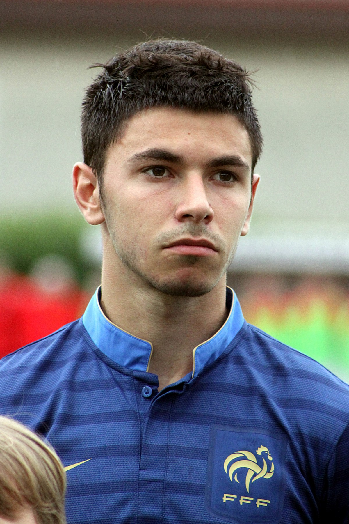 Qualification for the 2013 UEFA European Under-19 Football Championship qualification Austria vs. France (0:1) on 2013-2013-06-10 in Traiskirchen. – The photo shows Morgan Sanson (Le Mans FC).